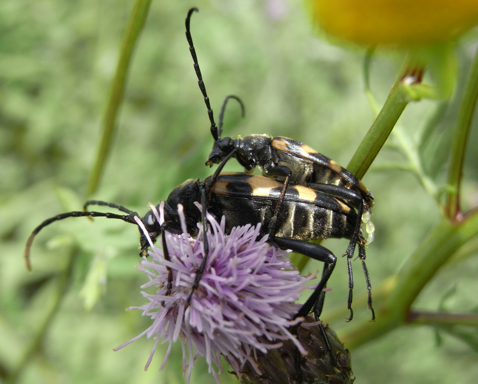 Longhorn beetles (Leptura quadrifasciata) mating.